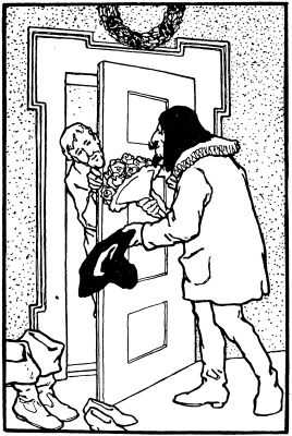 Illustration by Otto Ubbelohde to the fairy tale Bearskin